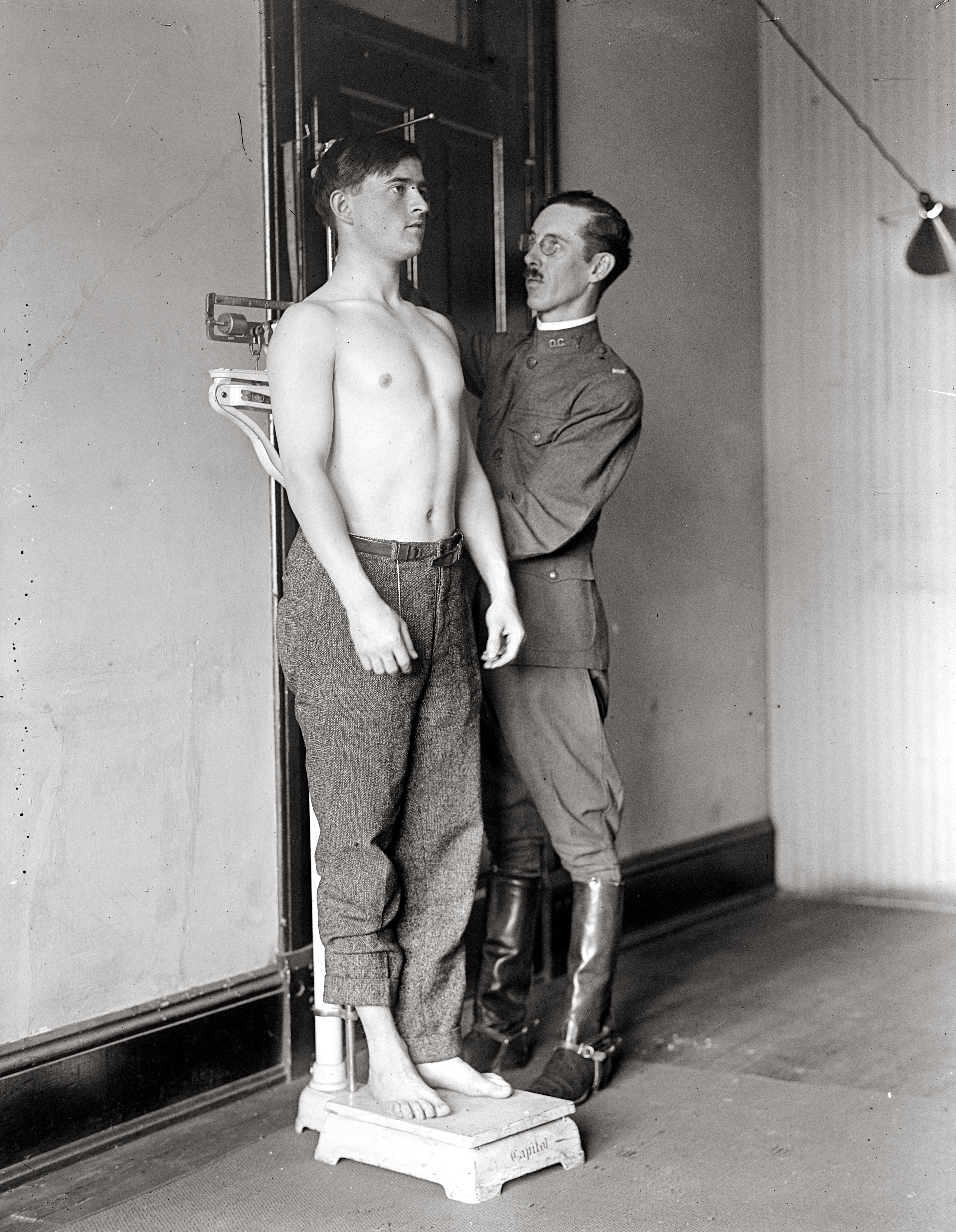 A physician from the United States Army administers a medical examination on a World War I soldier.